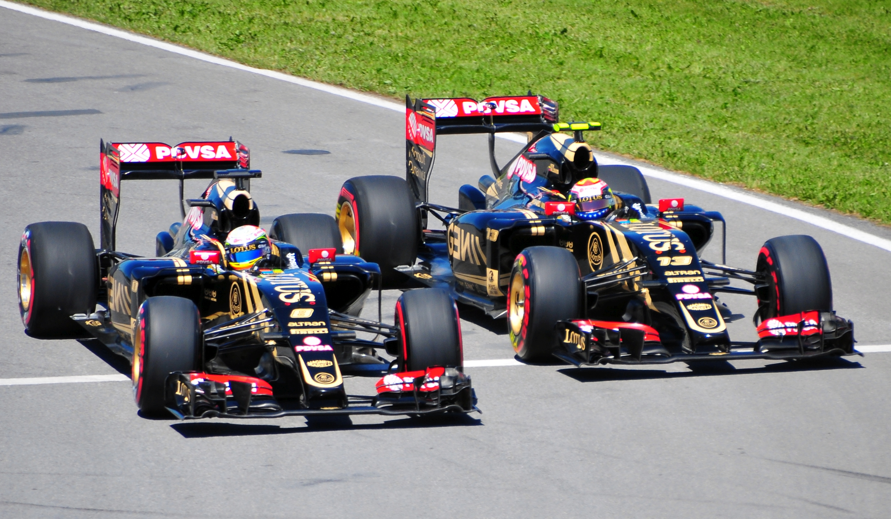 Romain Grosjean and Pastor Maldonado during the qualifying on Circuit Gilles Villeneuve in Canada